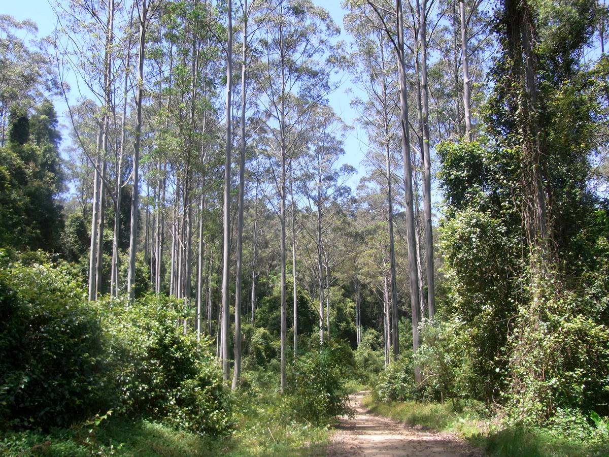 Eucalyptus saligna, Black Bulga reserve near Dungog, Australia, trees around 35 metres tall